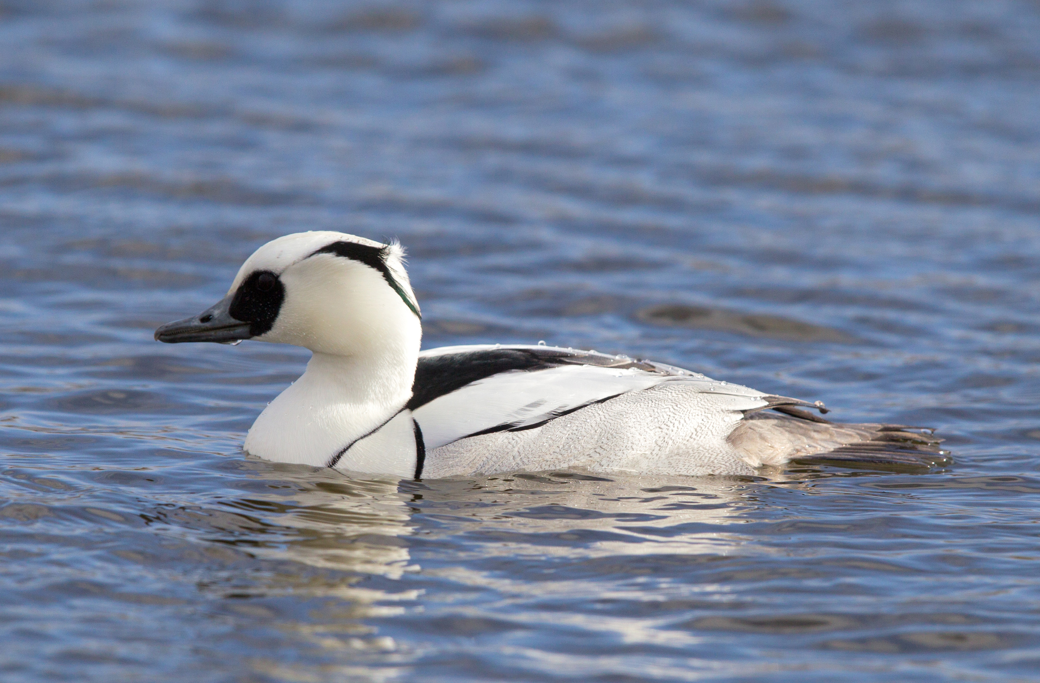 Male Smew Mergellus albellus, Zevenhuizen, Texel, Netherlands